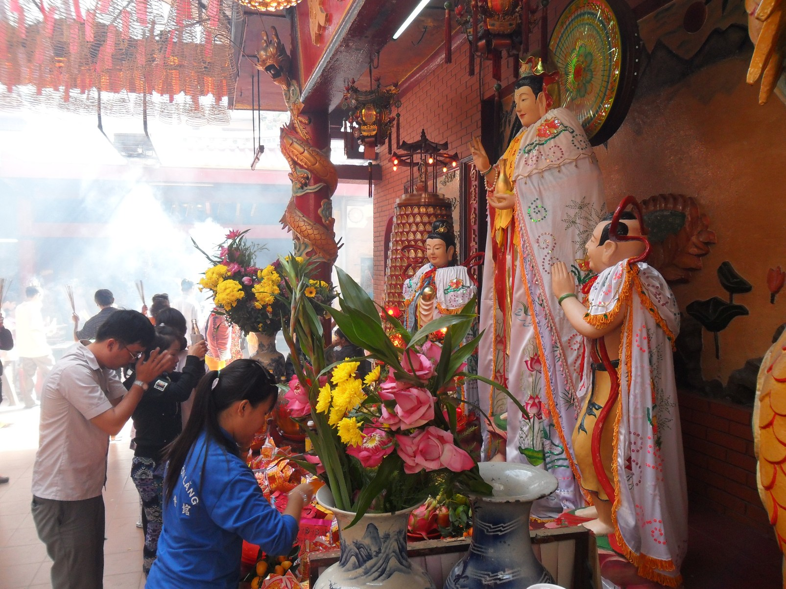 Inside Chua On Lang Pagoda, Cholon, Ho Chi Minh City, Vietnam